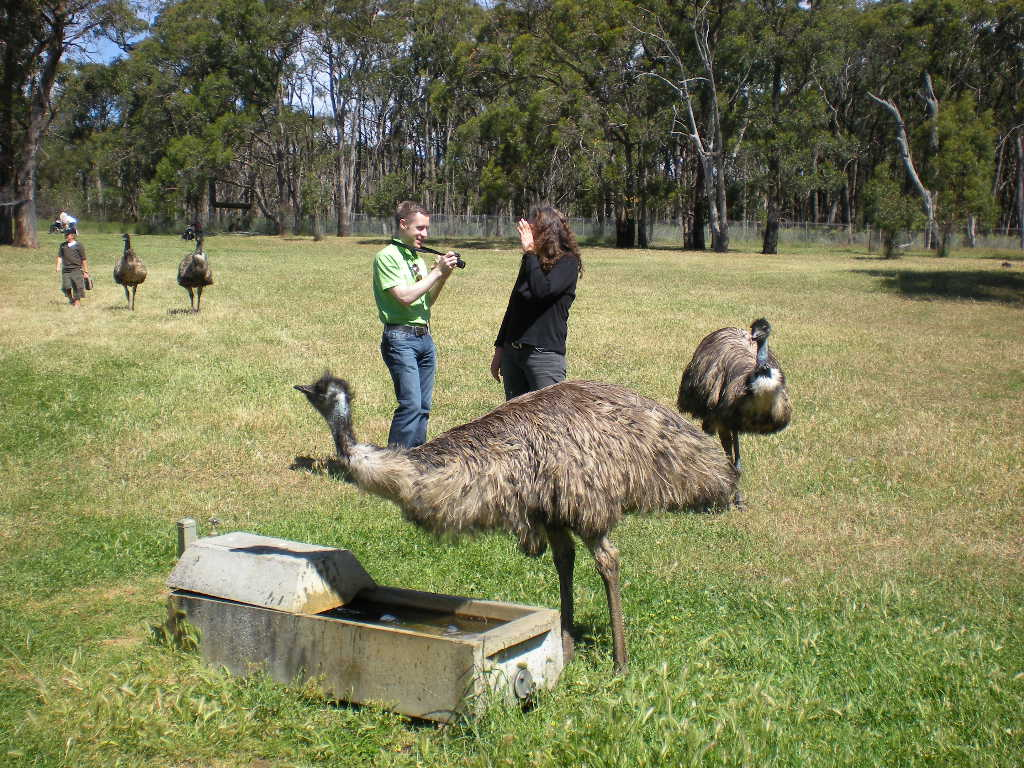 Emus and people at Cleland Wildlife Park, Australia.